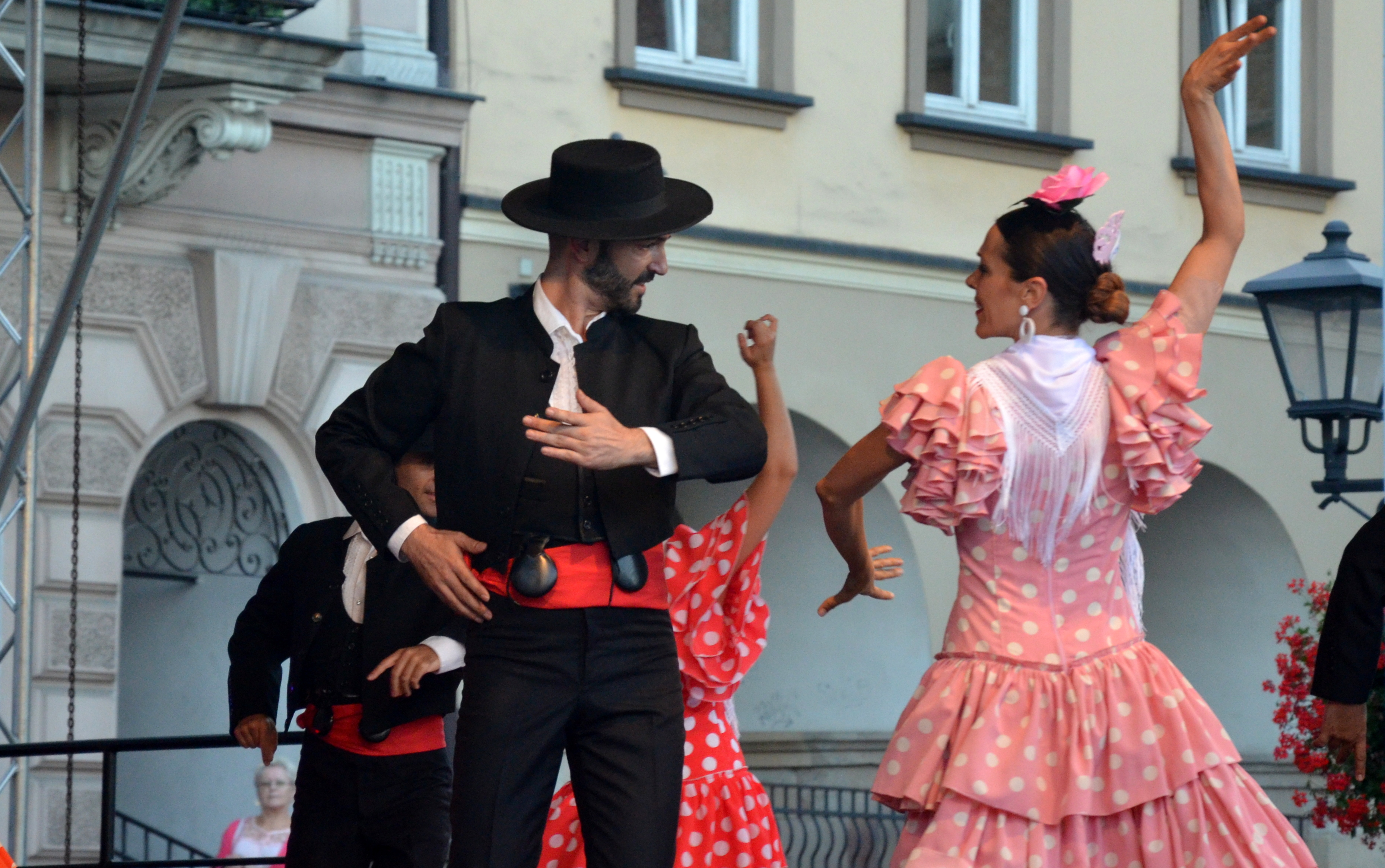 La Asociación de Coros y Danzas Francisco de Goya